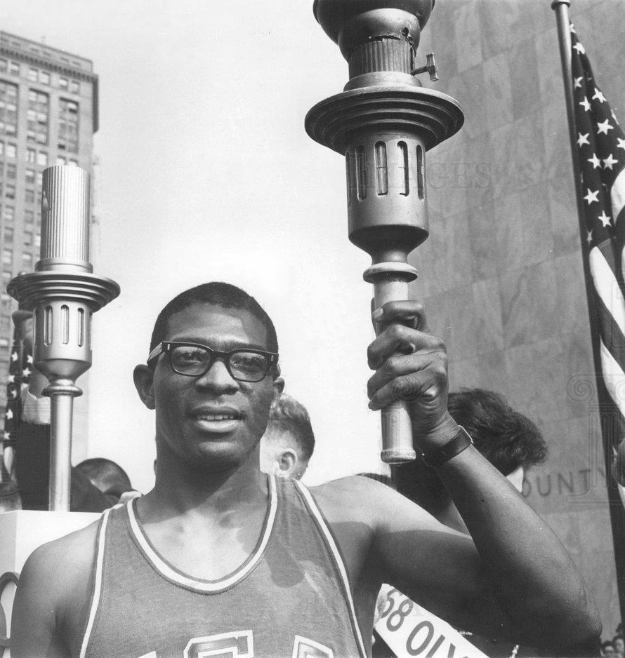 1963 Press Photo Detroit MI Hayes Jones Olympic Gold Medalist in Hurdles